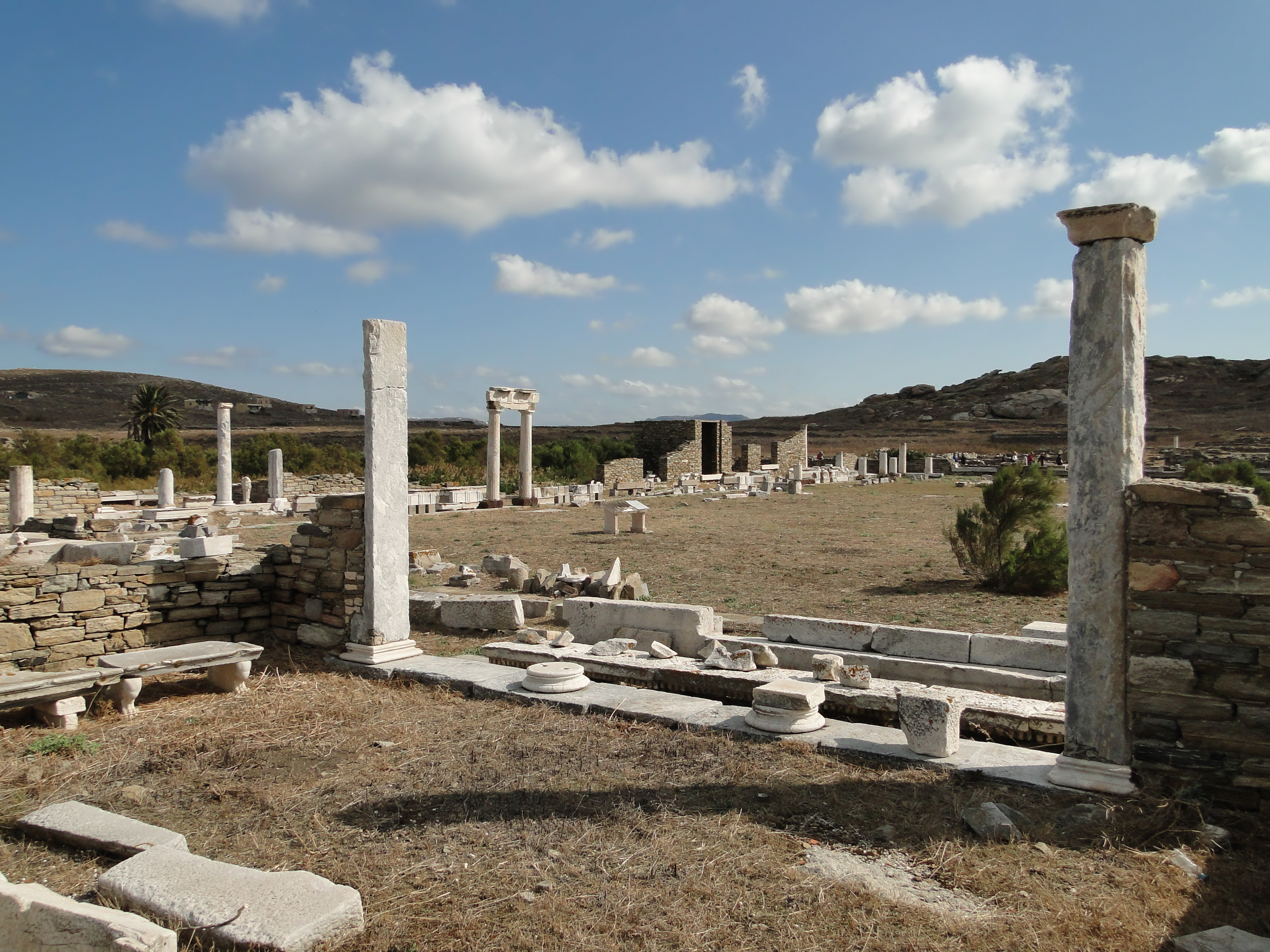 Agora of the Italians in Delos, Greece